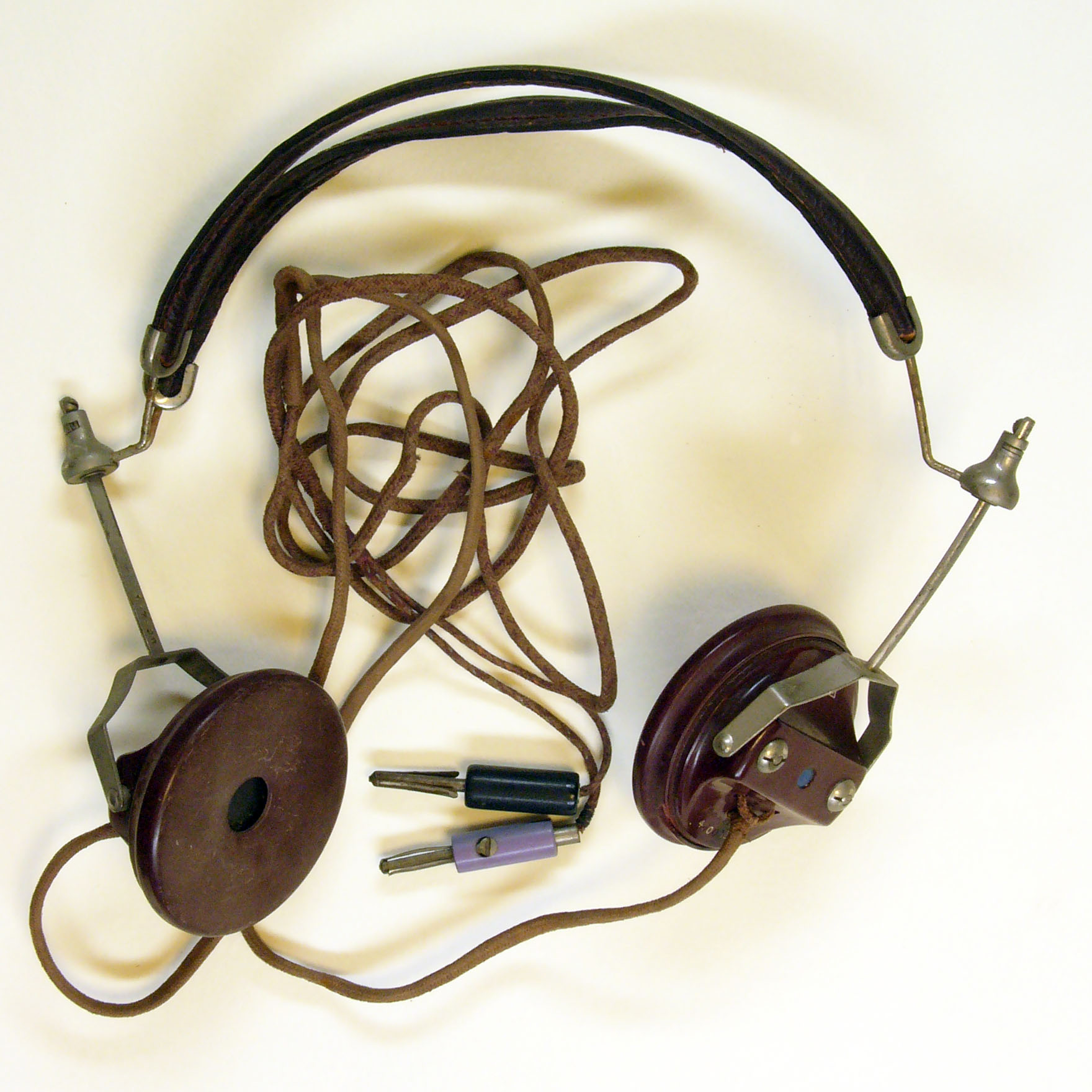 Headphone from around 1920 (?)